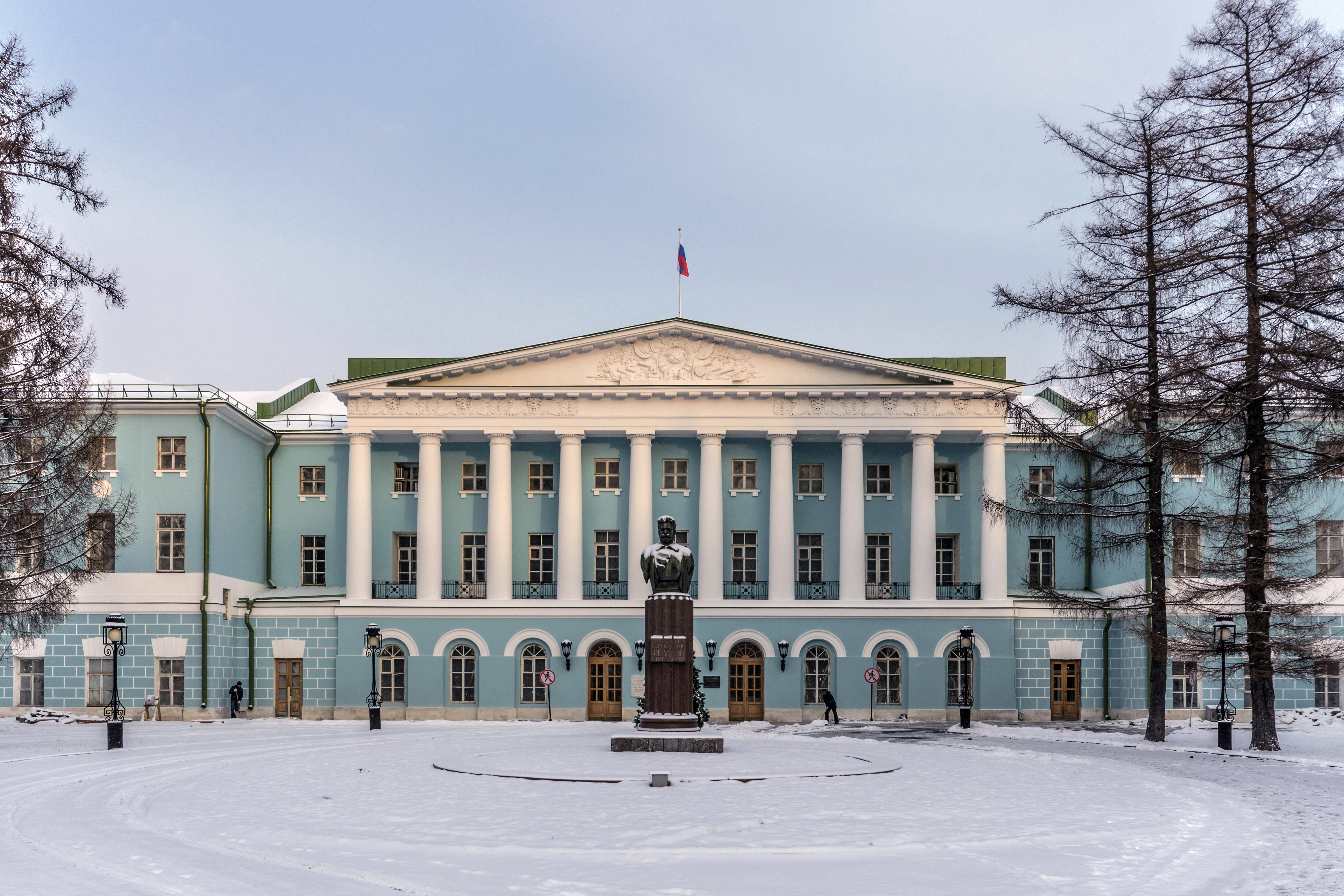 Culture Centre of the Russian Armed Forces in Moscow